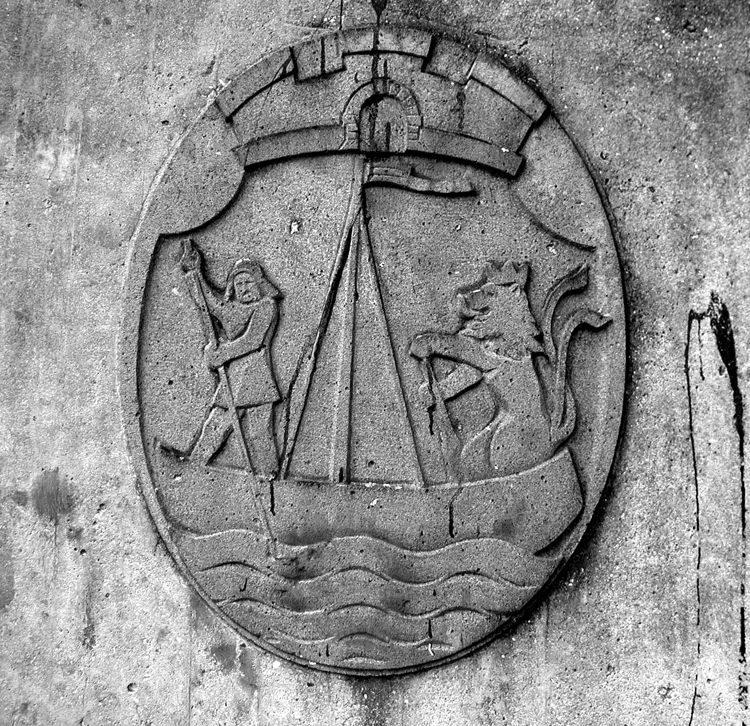 Cologne, city arms of the former "Stadt Mülheim am Rhein"